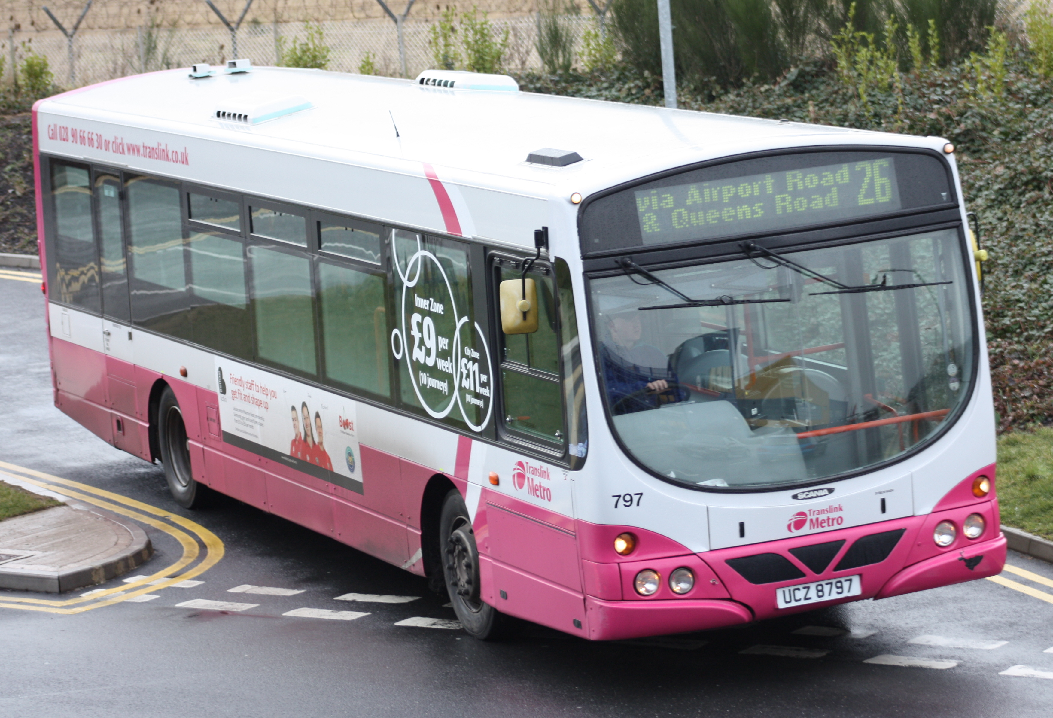 Metro bus 797 (reg. UCZ 8797), a 2003 Scania L94UB single-decker with Wrightbus Solar bodywork, pictured at the turning point near IKEA, Airport Road West, Belfast, Northern Ireland.